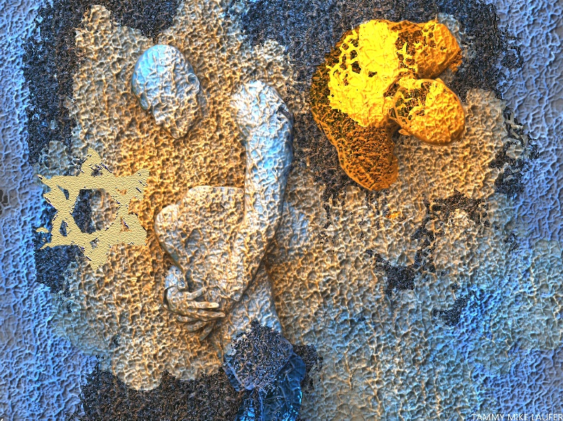 Weakness, digital drawing 2009, by Tammy Mike Laufer